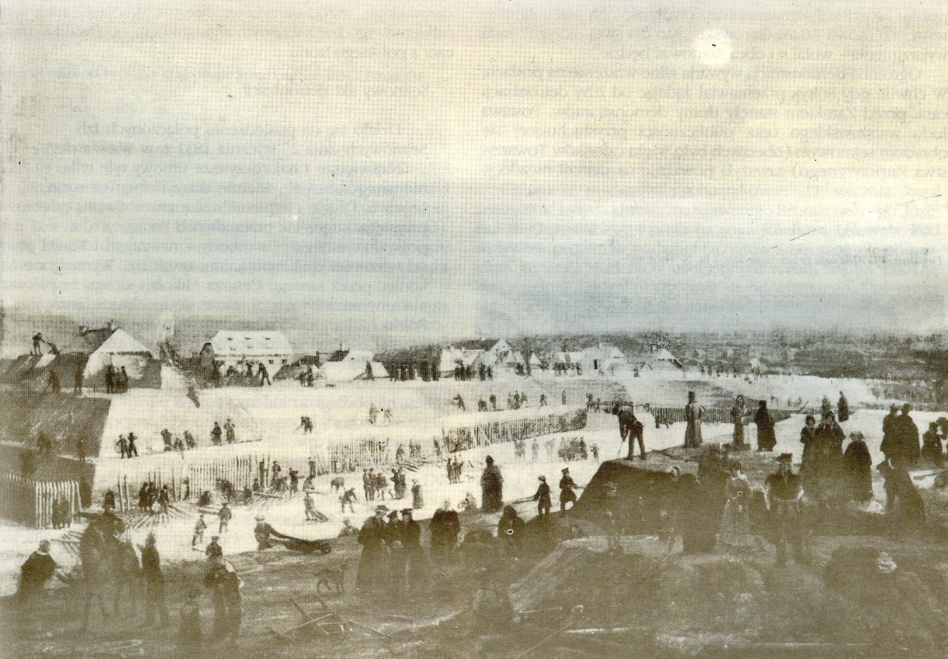 "The ramparts of Warsaw", an anonymous 19th century sketch